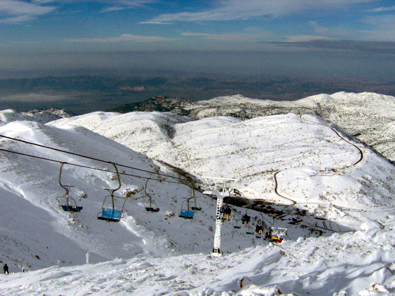 Hermon site, Israel